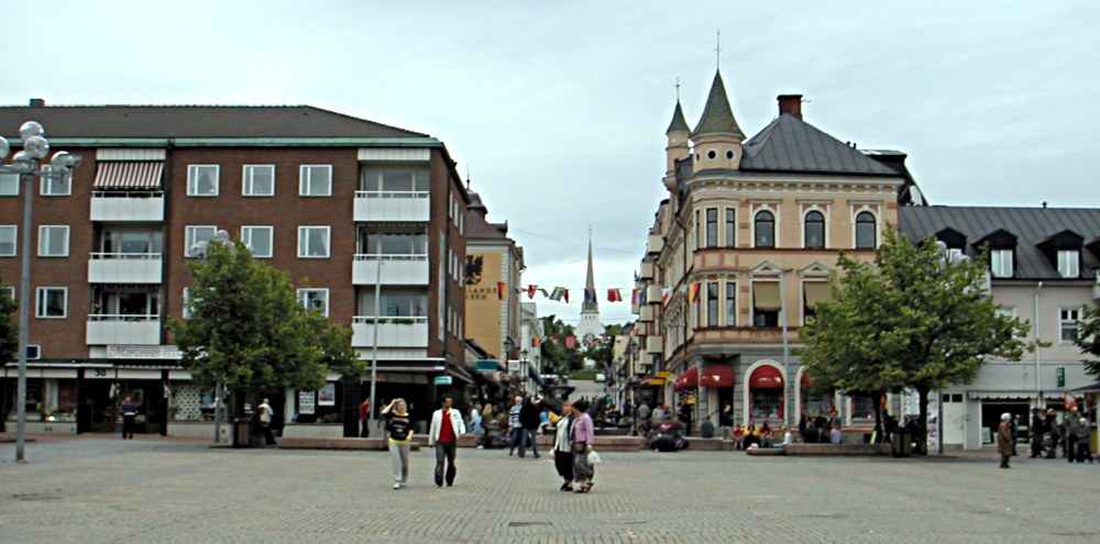 Arvika central village